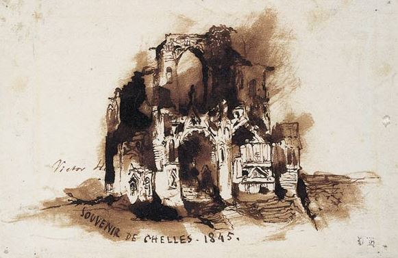 The ruins of Chelles Abbey in 1845 in a drawing by Victor Hugo